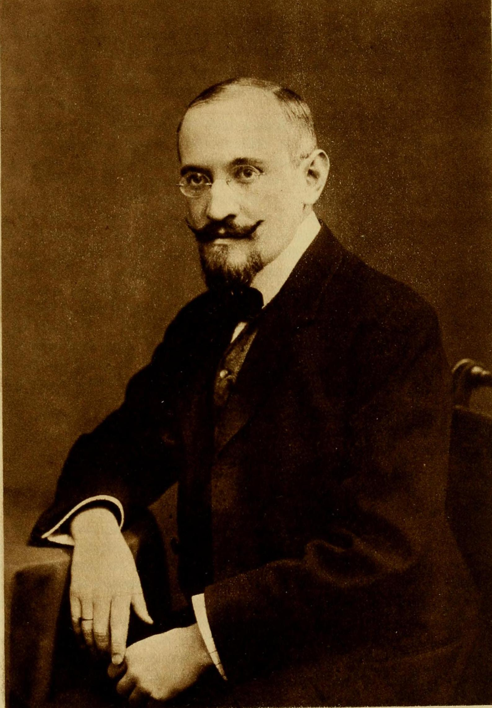 Stanislaus von Prowazek